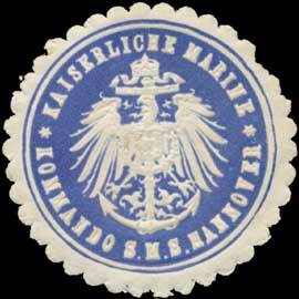 Sealing stamp Title: K. Marine Kommando S.M.S. Hannover Description: blau, weiß, geprägt Place: size: 4 cm